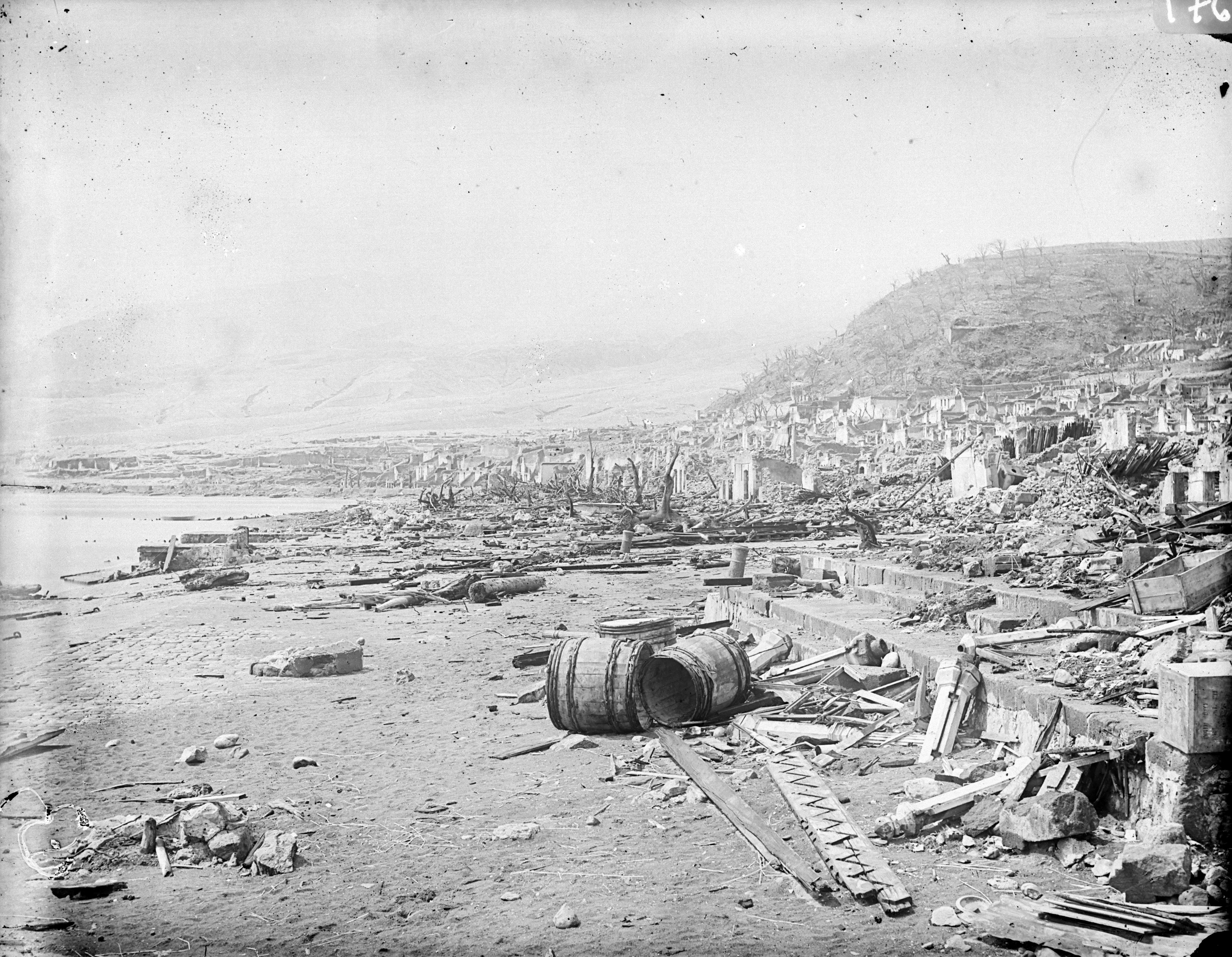 One Slide and two negatives. Seafront view of Saint Pierre, devastated ruins and debris on the beach.